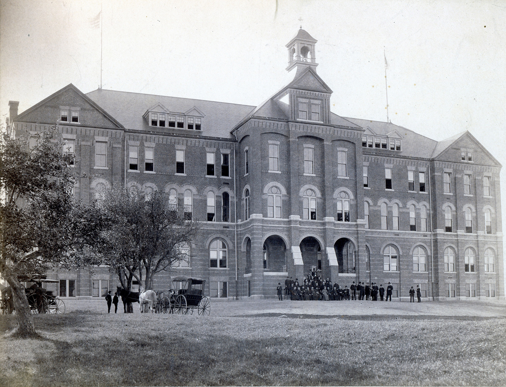 This is an image of the dedication of Saint Anselm College on October 11th, 1893 in Manchester, NH